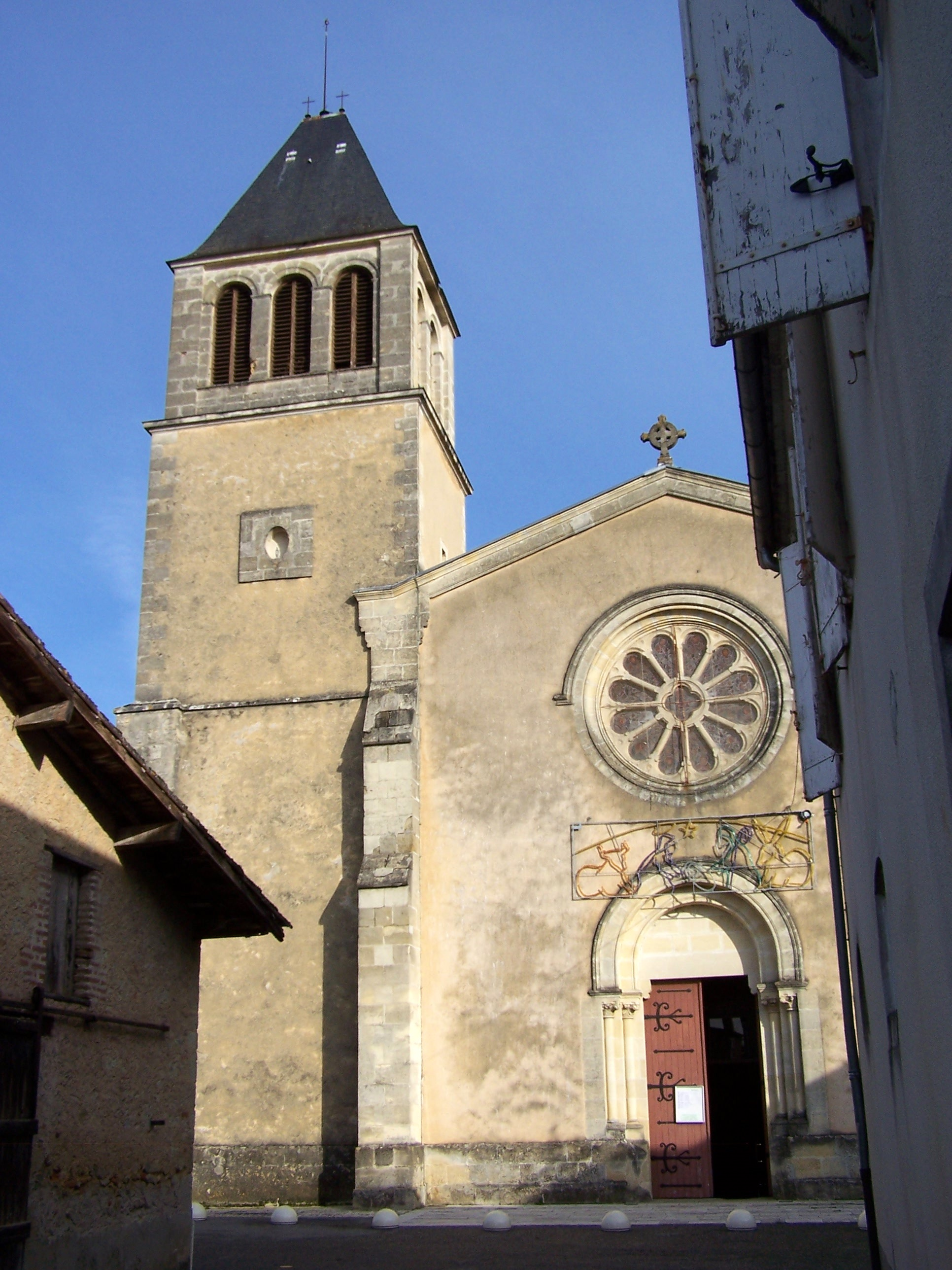 Church of Caudrot (Gironde, France)